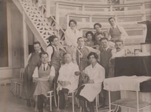 Karl König with his professors in Vienna, 1925